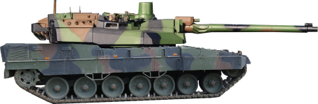 Photomontage of a Leclerc tank turret on a Leopard 2A7 chassis. This configuration is similar to the European Main Battle Tank.